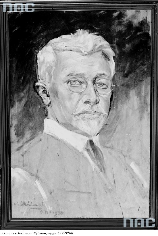 "Autoportret" Wincentego Wodzinowskiego .